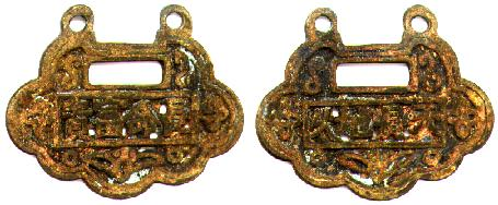 Section 32.7: "Four character obverse, four character reverse: Seven strokes in first character of obverse". 41 mm x 51 mm Obv. Ch'ang Ming Fu Kuei rl "Long life, wealth and honour" Rev. T'ien Ch'ang Ti Chi rl "As enduring as heaven and earth" Meaning: Ref.: [R] 36 View a page of Ch'ang Ming Fu Kuei charms.